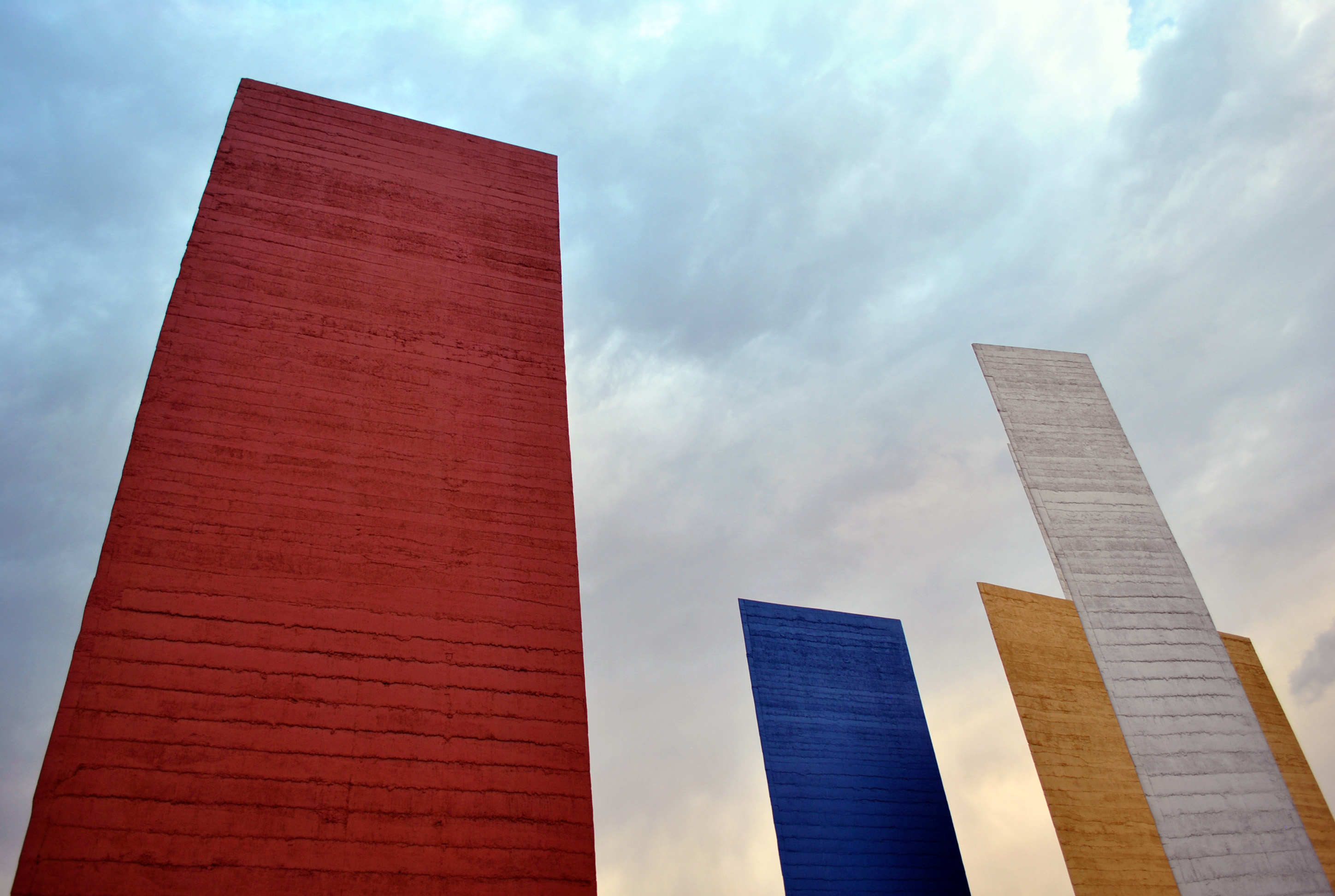 Torres de Satélite, sculptures by Mathías Goeritz, Luis Barragán and Jesús "Chucho" Reyes Ferreira.